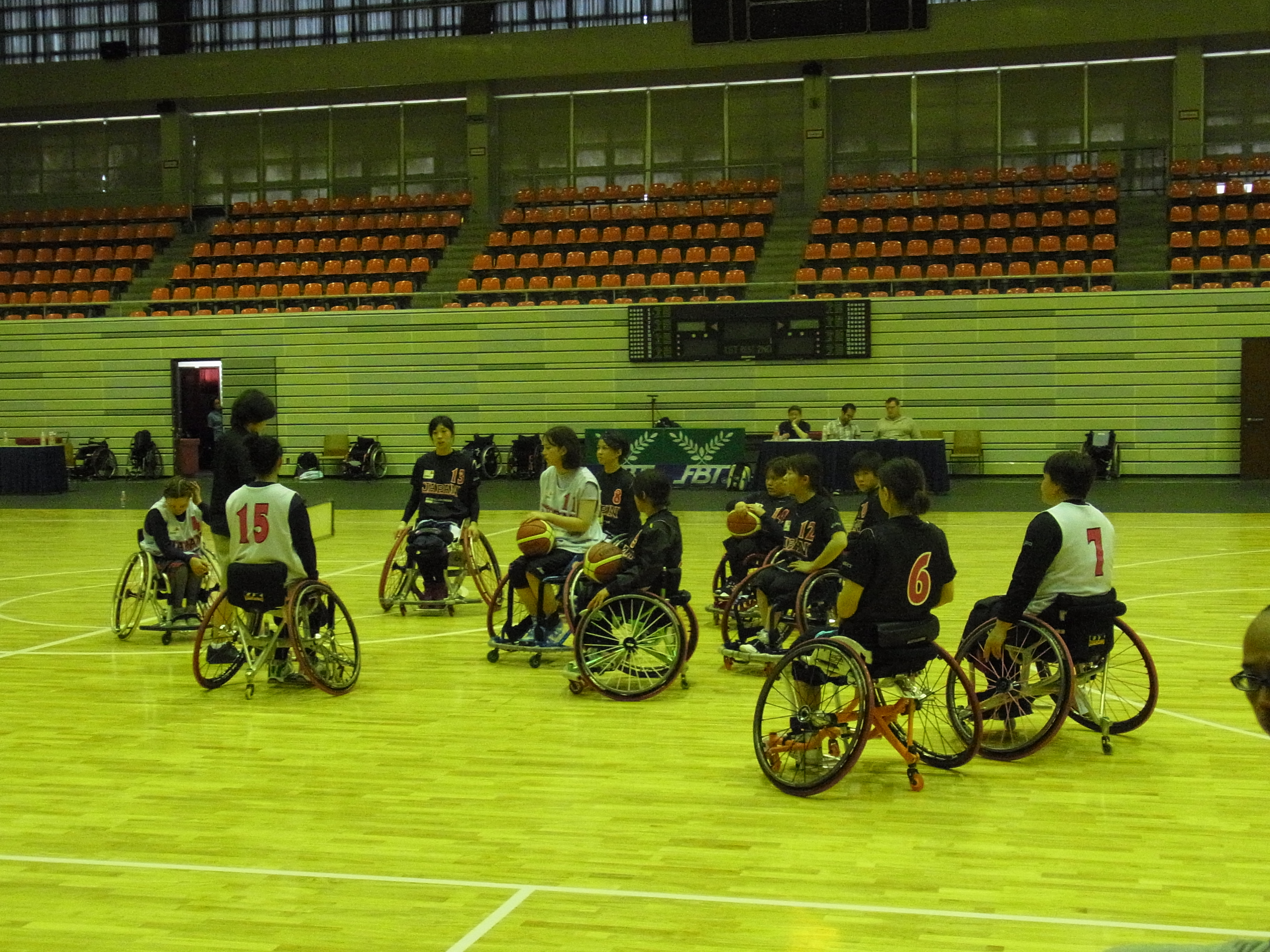 Japan womens wheelchair basketball team 2013